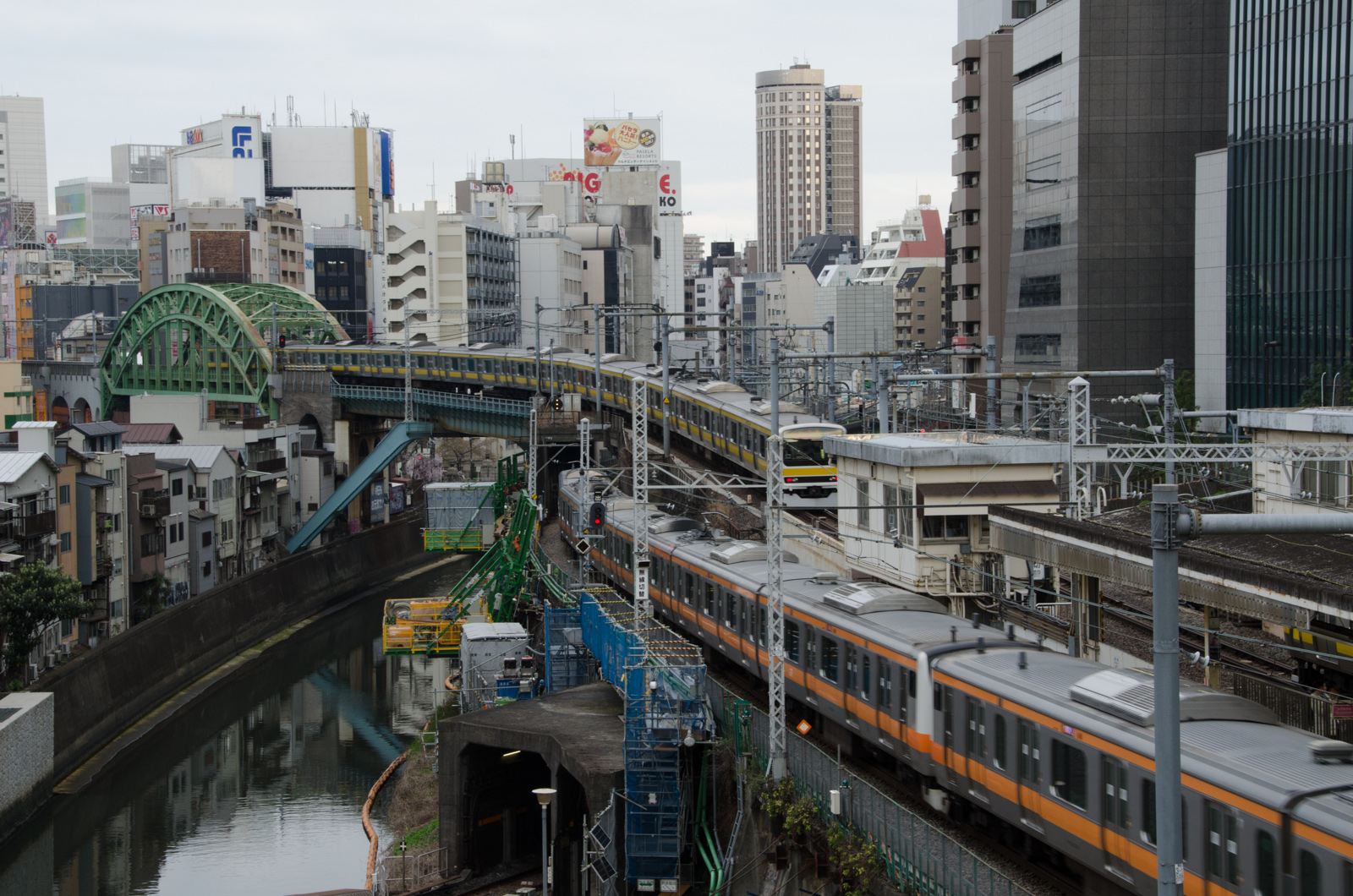 Corssing curve